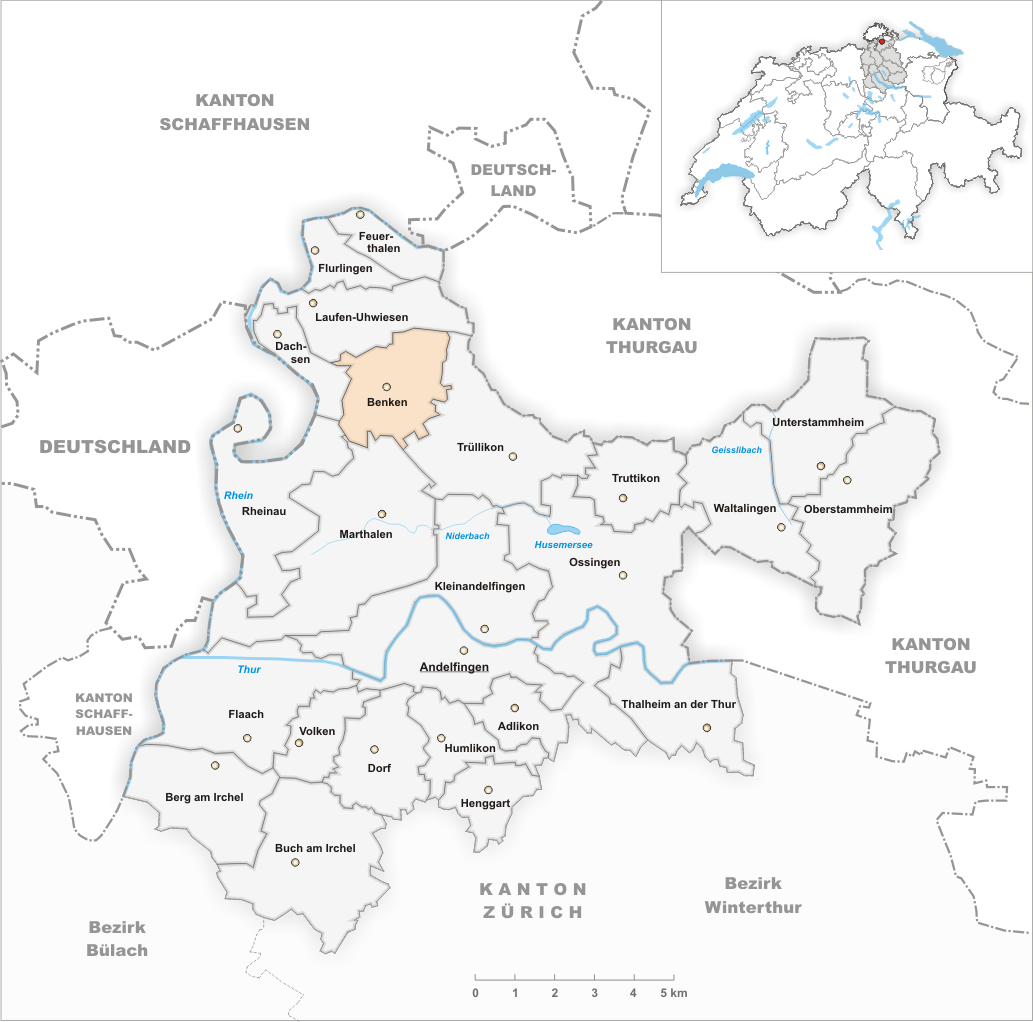 Municipality Benken